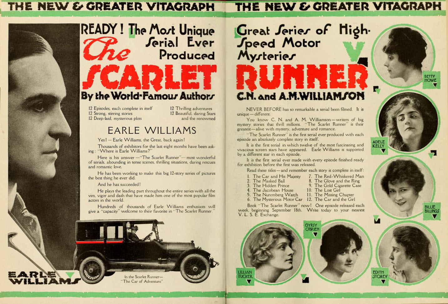 Advertisement in Moving Picture World for the 1916 film serial The Scarlet Runner with Earle Williams, Betty Howe, Adele Kelly, Billie Billings, Edith Storey, Gypsy O'Brien, and Lillian Tucker.